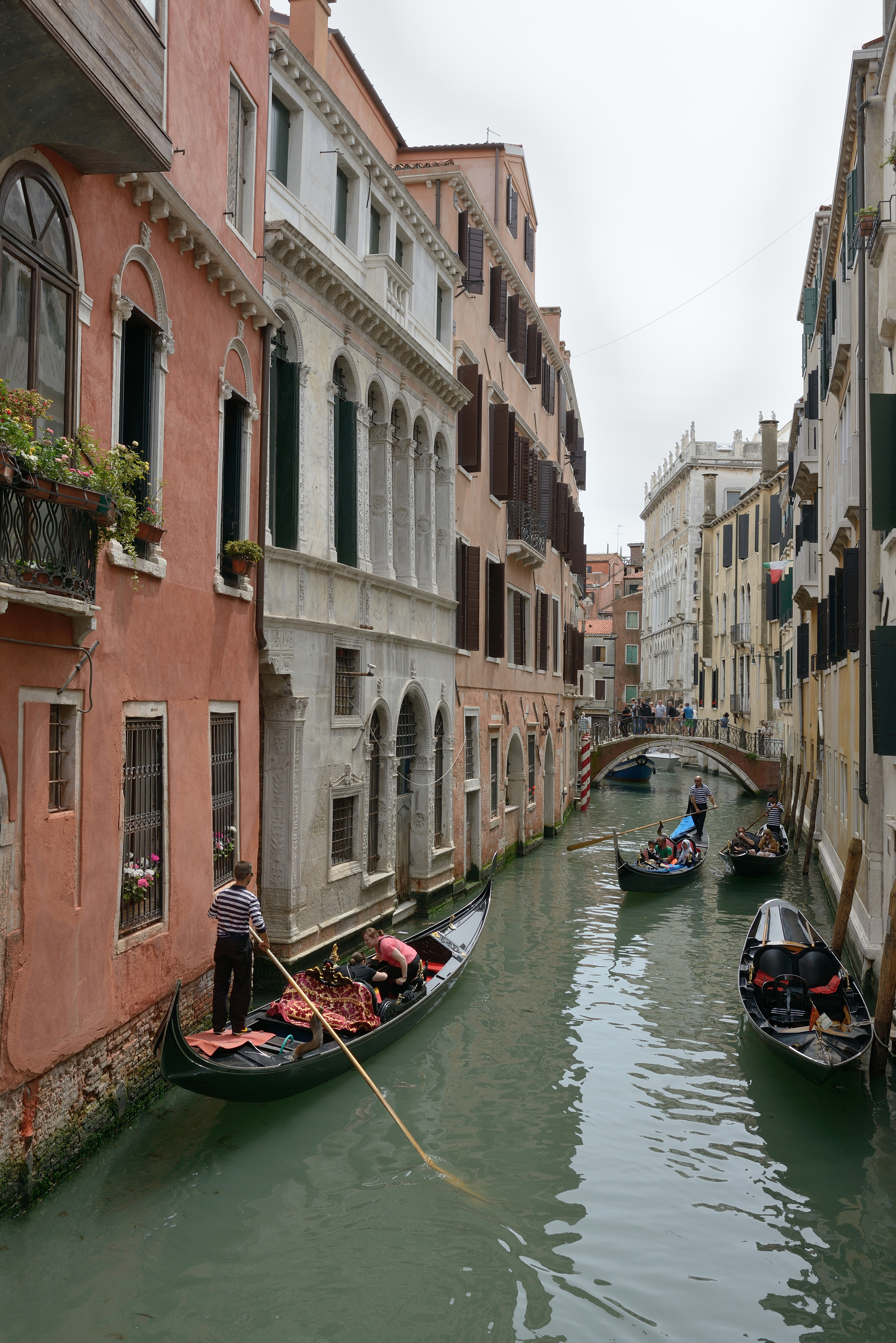 The Rio de la Fava canal in Venice.